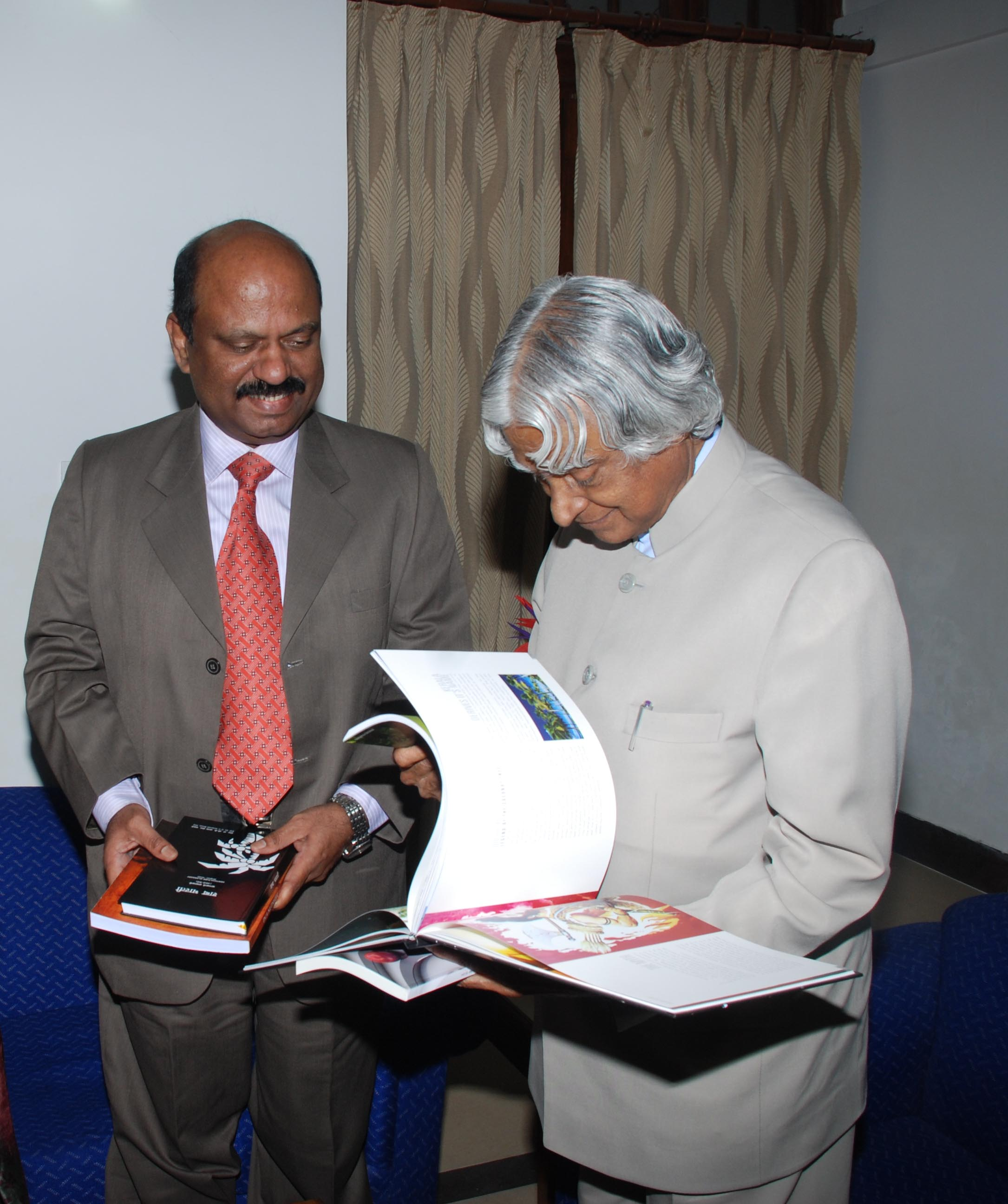 With A.P.J Abdul Kalam